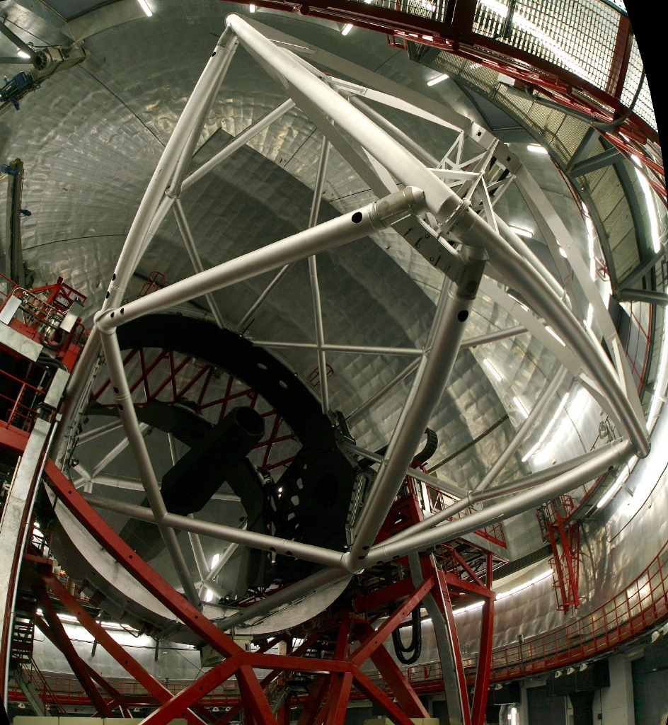 Gran Telescopio Canarias (GRANTECAN or GTC), a 10m optical Telescope at the Roque de los Muchachos Observatory, La Palma, Canary Islands. This image was stitched from two overlapping shots using PTgui.